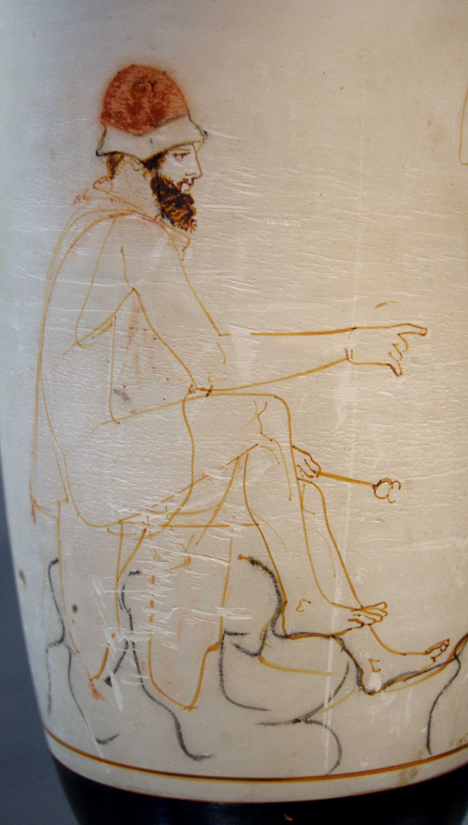 Hermes psykhopompos: sitting on a rock, the god is preparing to lead a dead soul to the Underworld. Attic white-ground lekythos, ca. 450 BC.